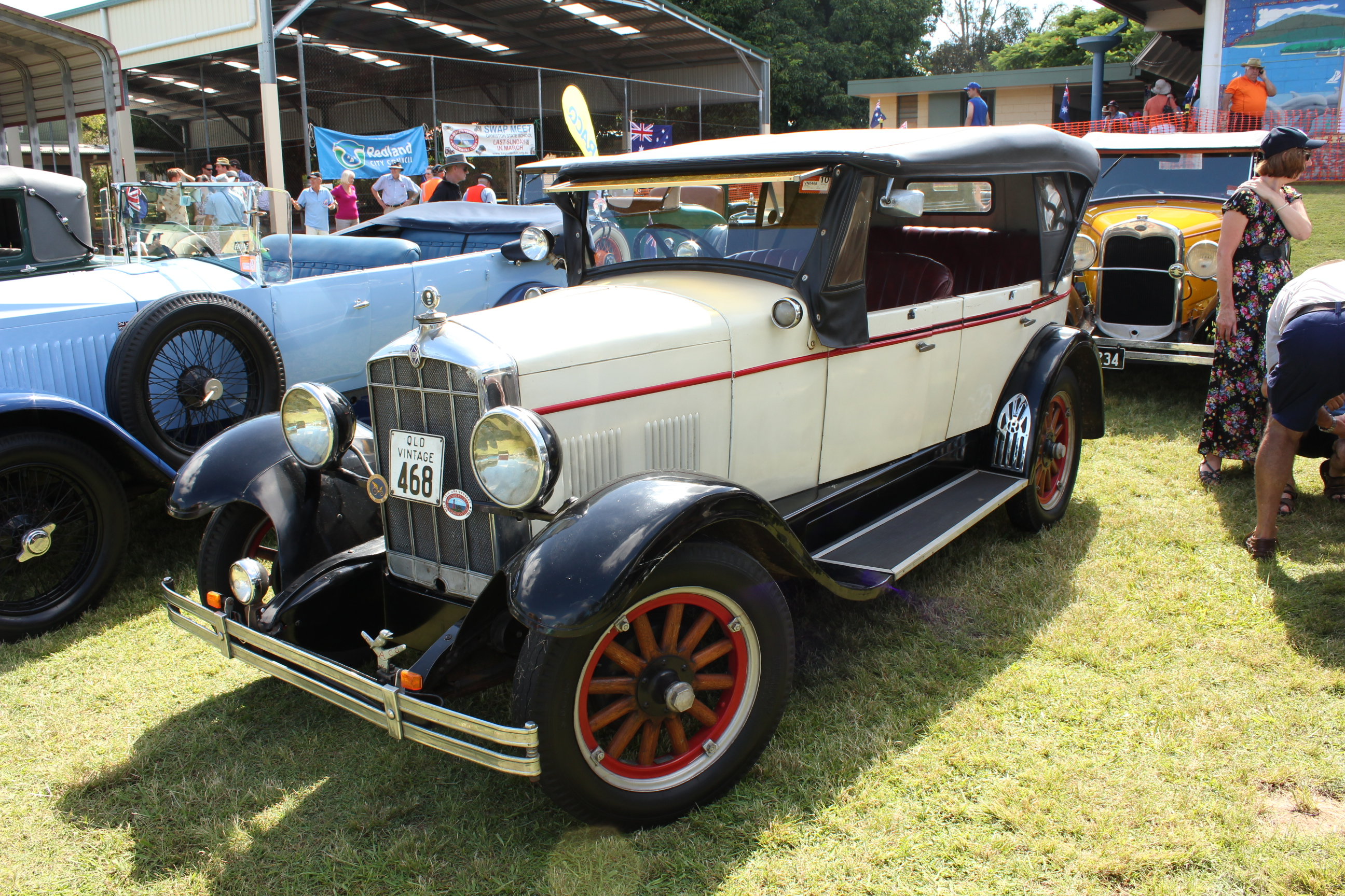 A vintage Rugby automobile. 1928 Rugby tourer